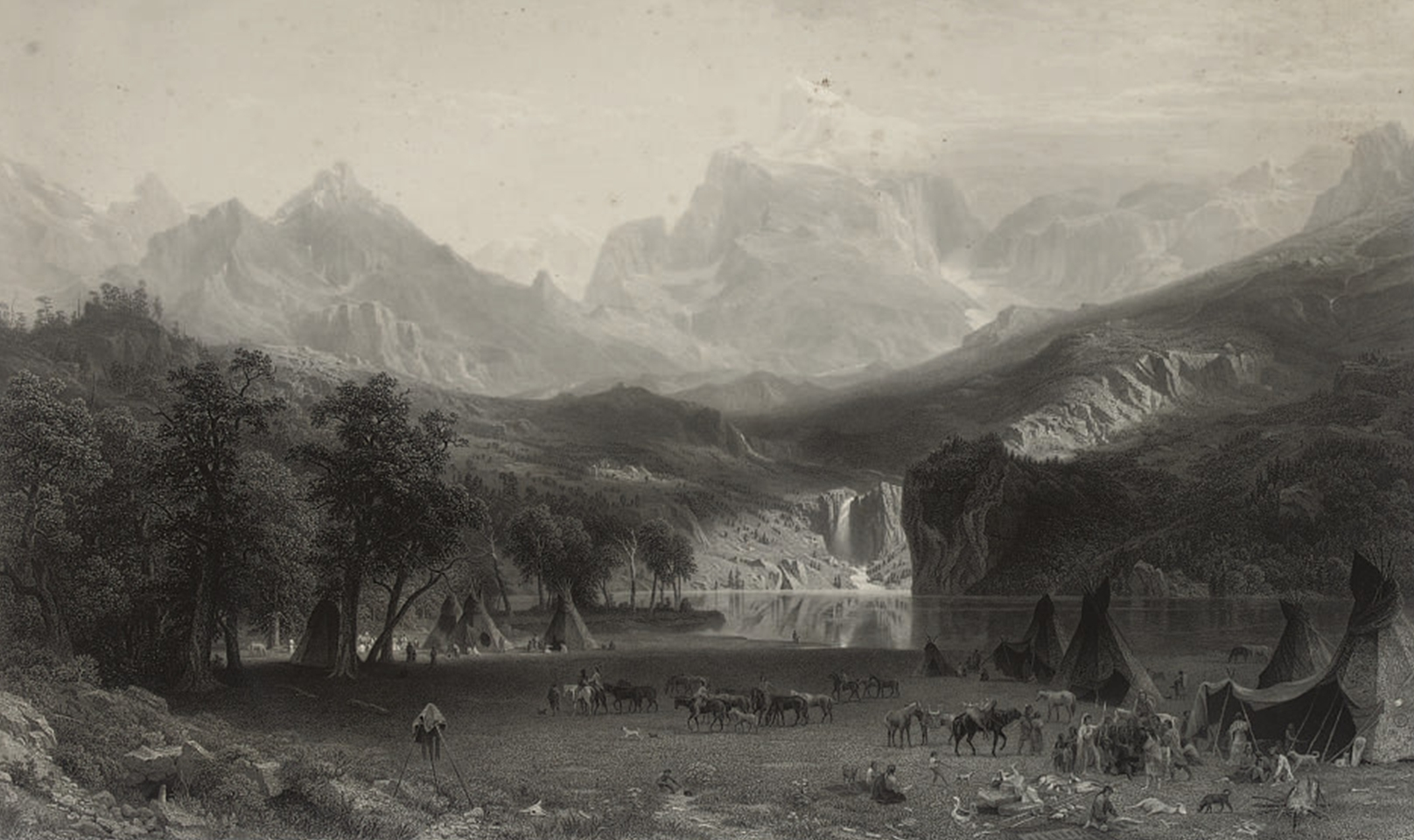 Steel engraving by James Smillie after Albert Bierstadt, proof before title, published by Edward Bierstadt, New York, 1866